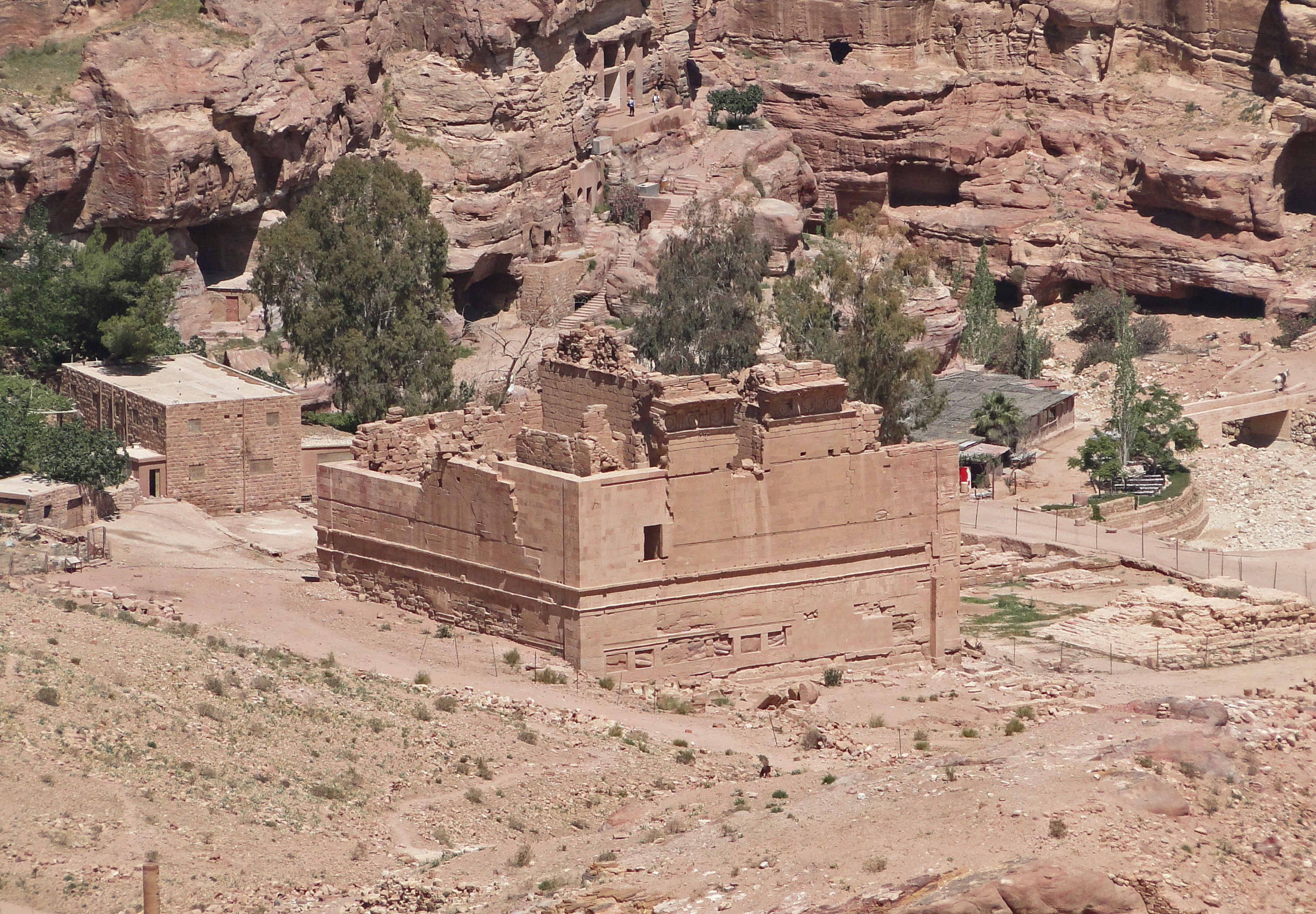 The Qasr al-Bint seen from the High Place of Sacrifice in Petra, Jordan